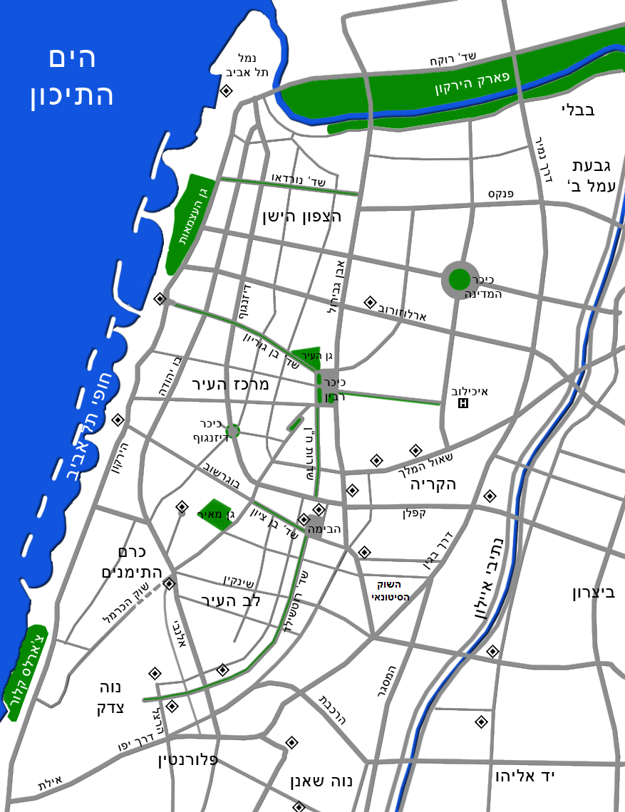 Map of Tel Aviv